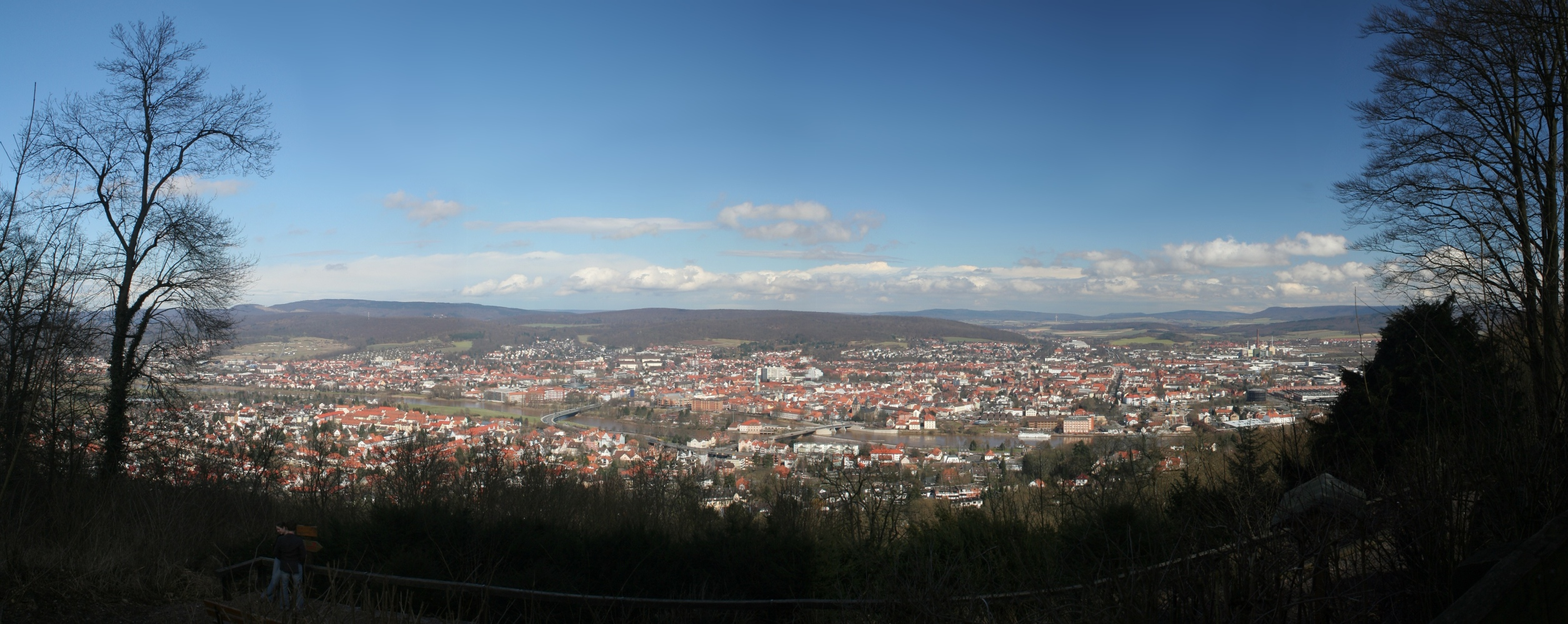 Panoramic view over the city of Hameln (Hamelin) in Germany. This photo is stiched together from 5 pictures. It was shot with the help of a polarization filter and a tripod.